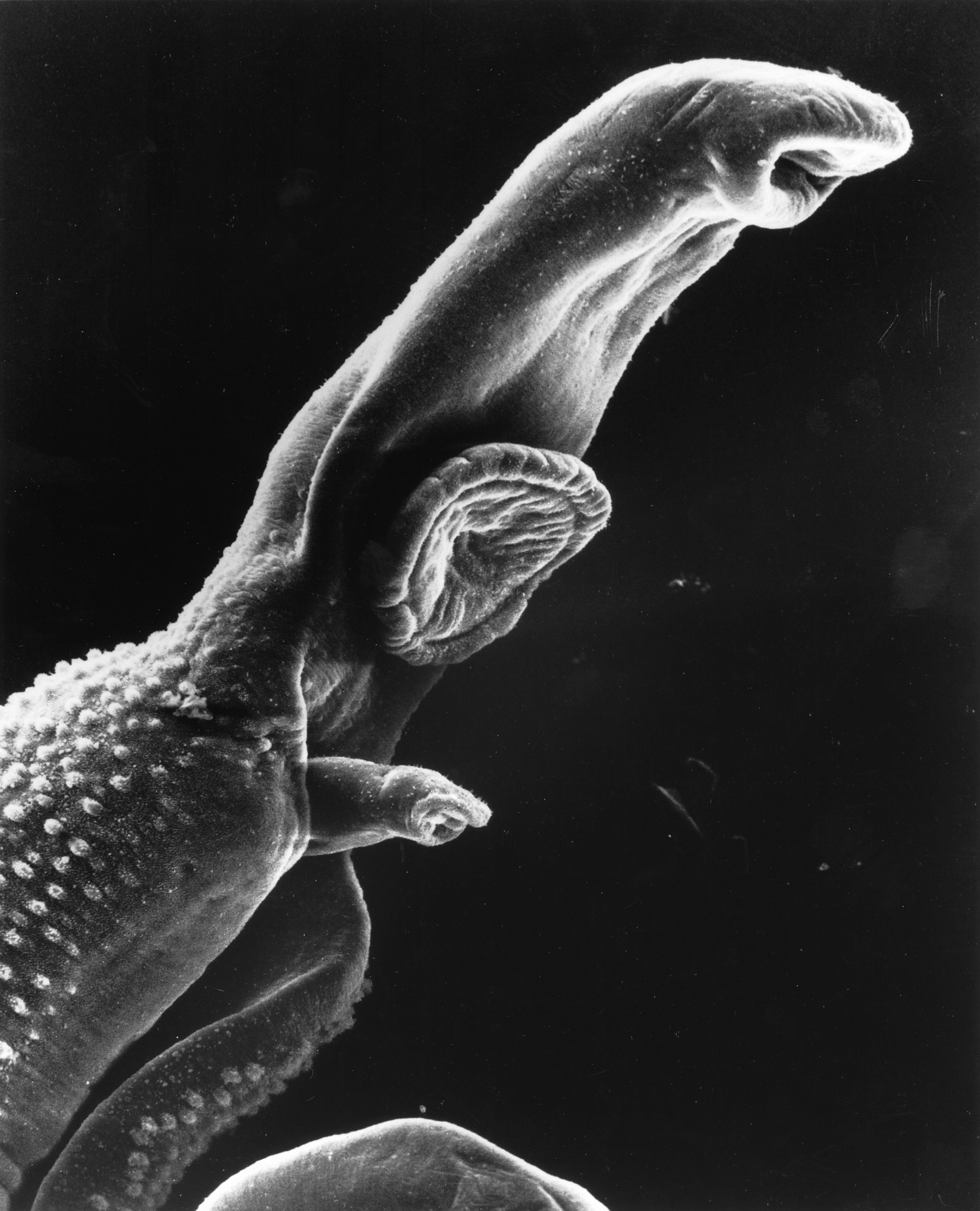 Title: Pathology: SEM: Schistosome Parasite Description: This schistosome parasite enters the body through the skin of persons coming in contact with infested waters. The adult worm lives in the veins of its host. The parasite is magnified x256 in this photograph. Subjects (names): Topics/Categories: Pathology -- Scanning Electron Microscopy (SEM) Type: Black & White Print. Black & White Slide Source: National Cancer Institute Author: Bruce Wetzel (photographer). Harry Schaefer (phot AV Number: AV-0000-3692 Date Created: Unknown Date Entered: 1/1/2001 Access: Public